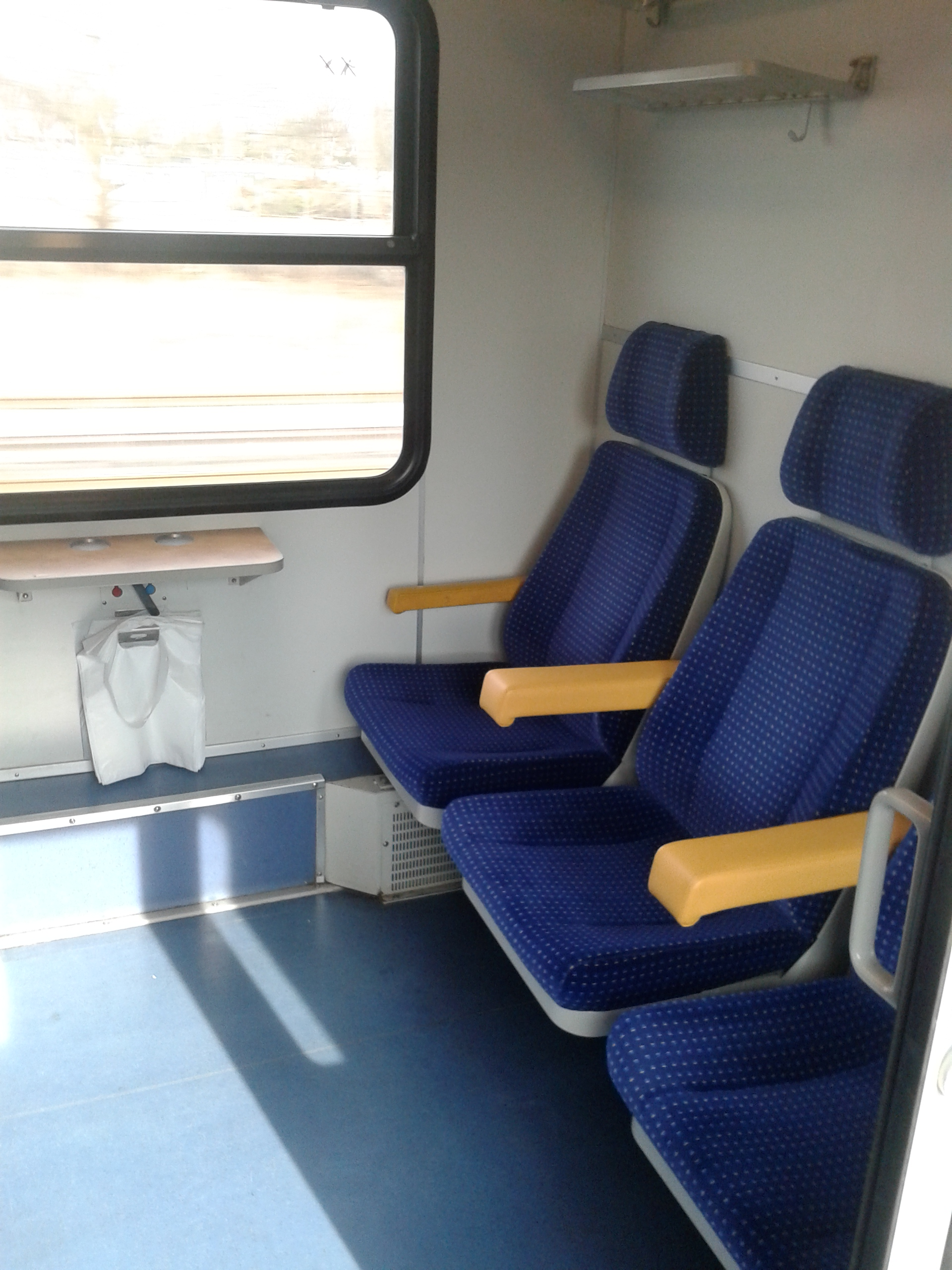 Second class compartment in a German regional train.